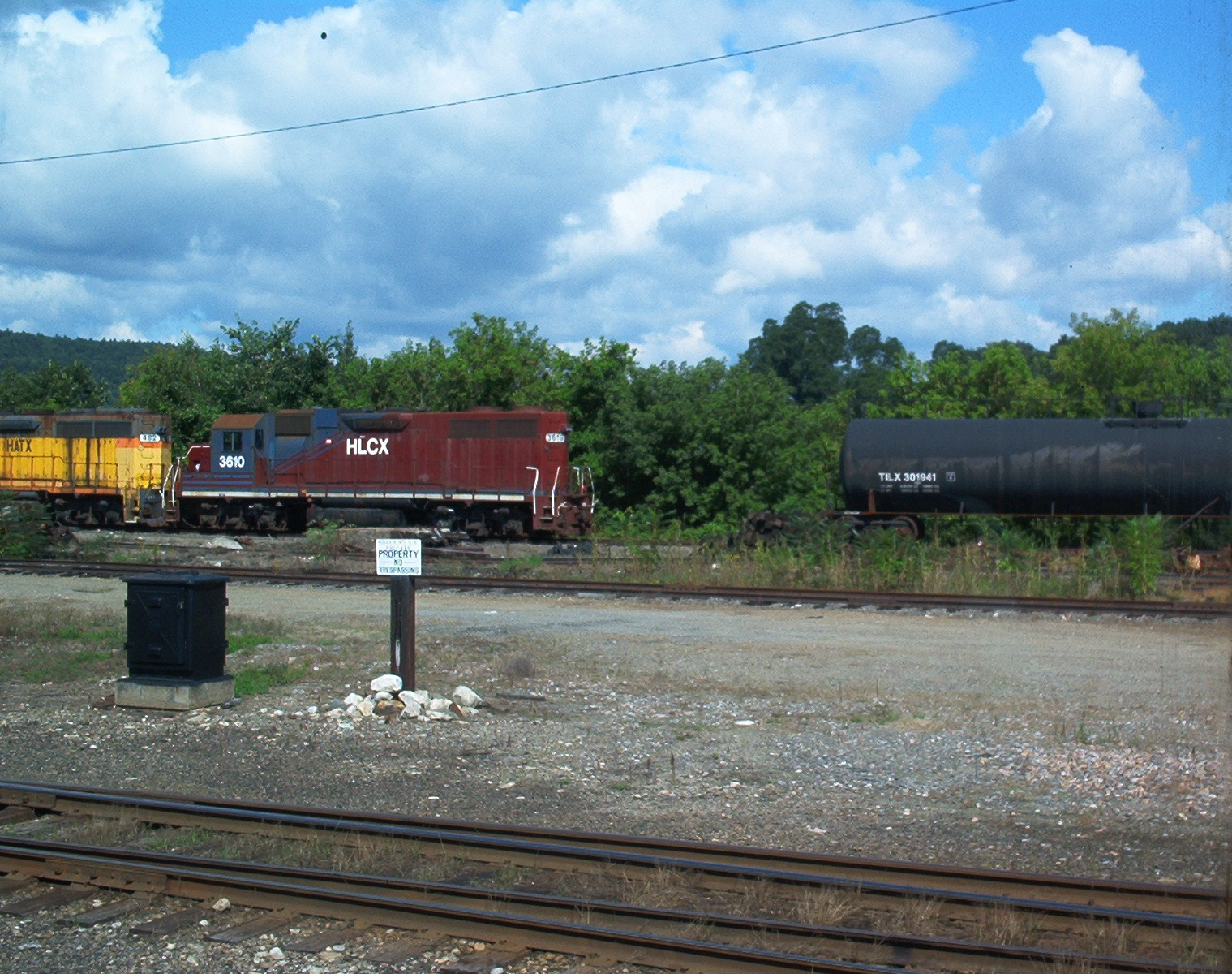 Rail yard in Bellows Falls VT.